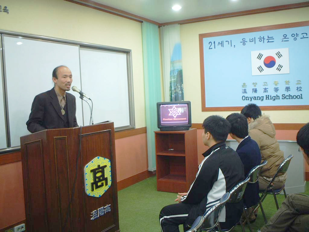 Raelian lecture at Onyang High School, South Korea